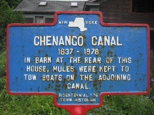 Historic marker Chenango Canal #4, barn where mules where kept for tow boats on the canal, Sherburne, NY